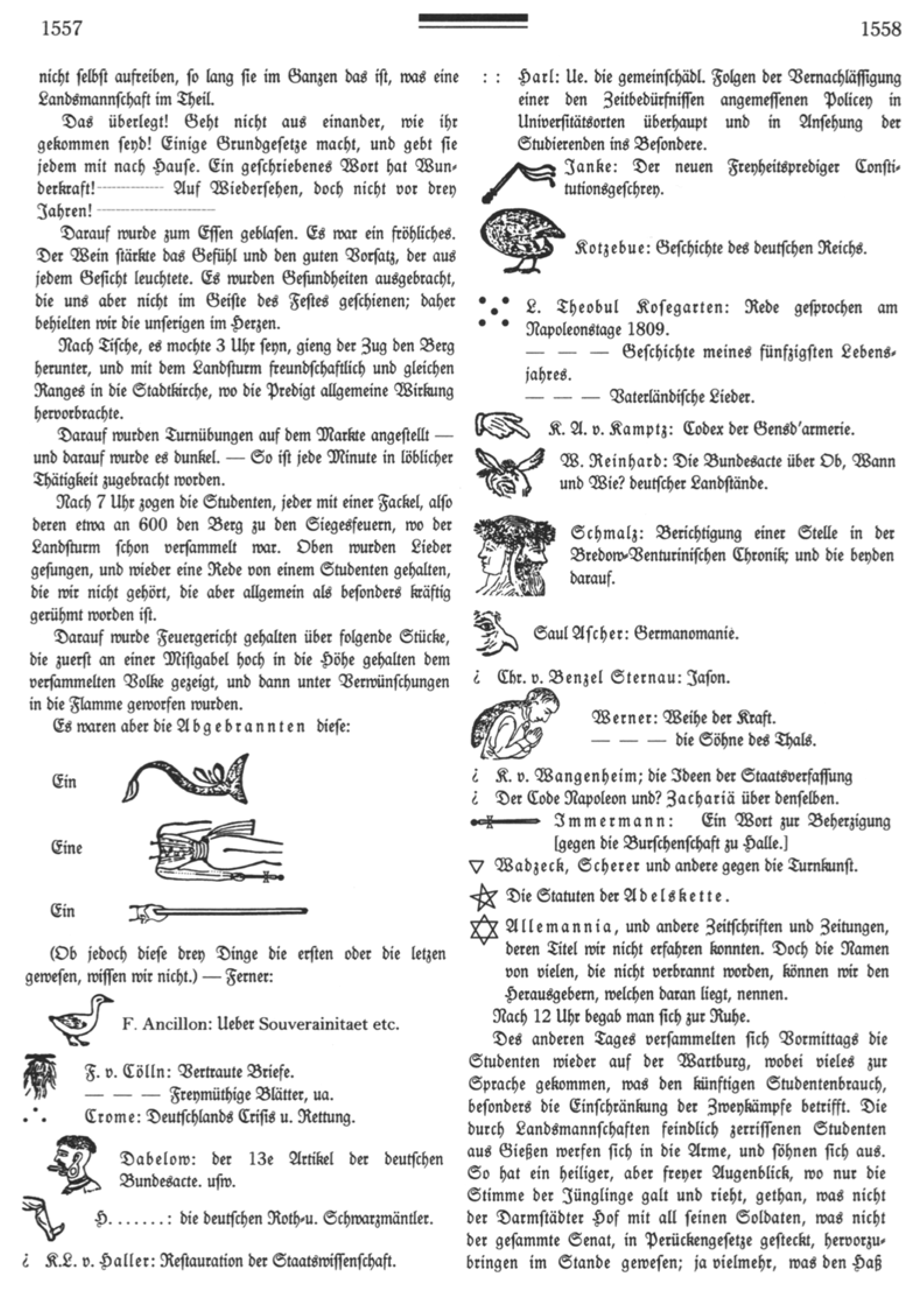 Columns 1557/1558 of Isis Number 195, 1817